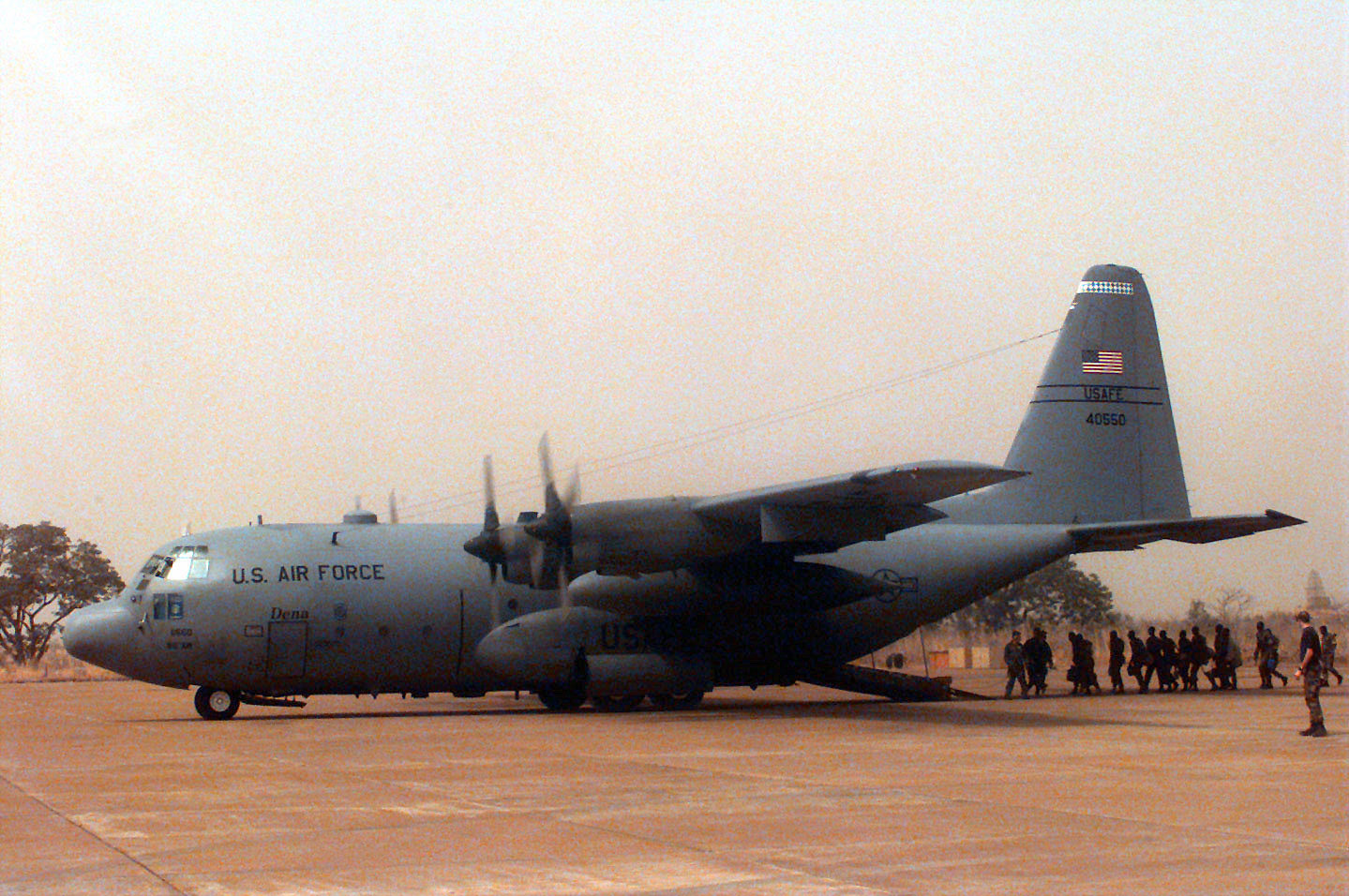 Economic Community Military Observation Group (ECOMOG) Mali Army Troops prepares to board a United States Air Force C-130E Hercules assigned to the 86th Airlift Wing at Bamako/Senou Airport in Mali. The troops will be transported to Roberts International Airport in Liberia for a six month deployment in support of Operation ASSURED LIFT. ASSURED LIFT is a Joint Task Force (JTF) operation to provide airlift and other logistical support to West African states that are deploying more than 600 troops to Liberia as part of the region's ongoing peacekeeping mission. Most of the inbound West African forces will come from the country of Mali, with the Ivory Coast and Ghana also expected to contribute troops.